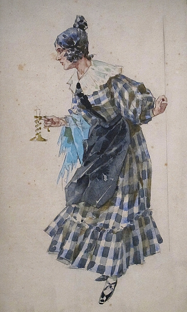 Mimi's costume for Act I of La Bohème for the premiere performance, Torino, 1 February 1896.